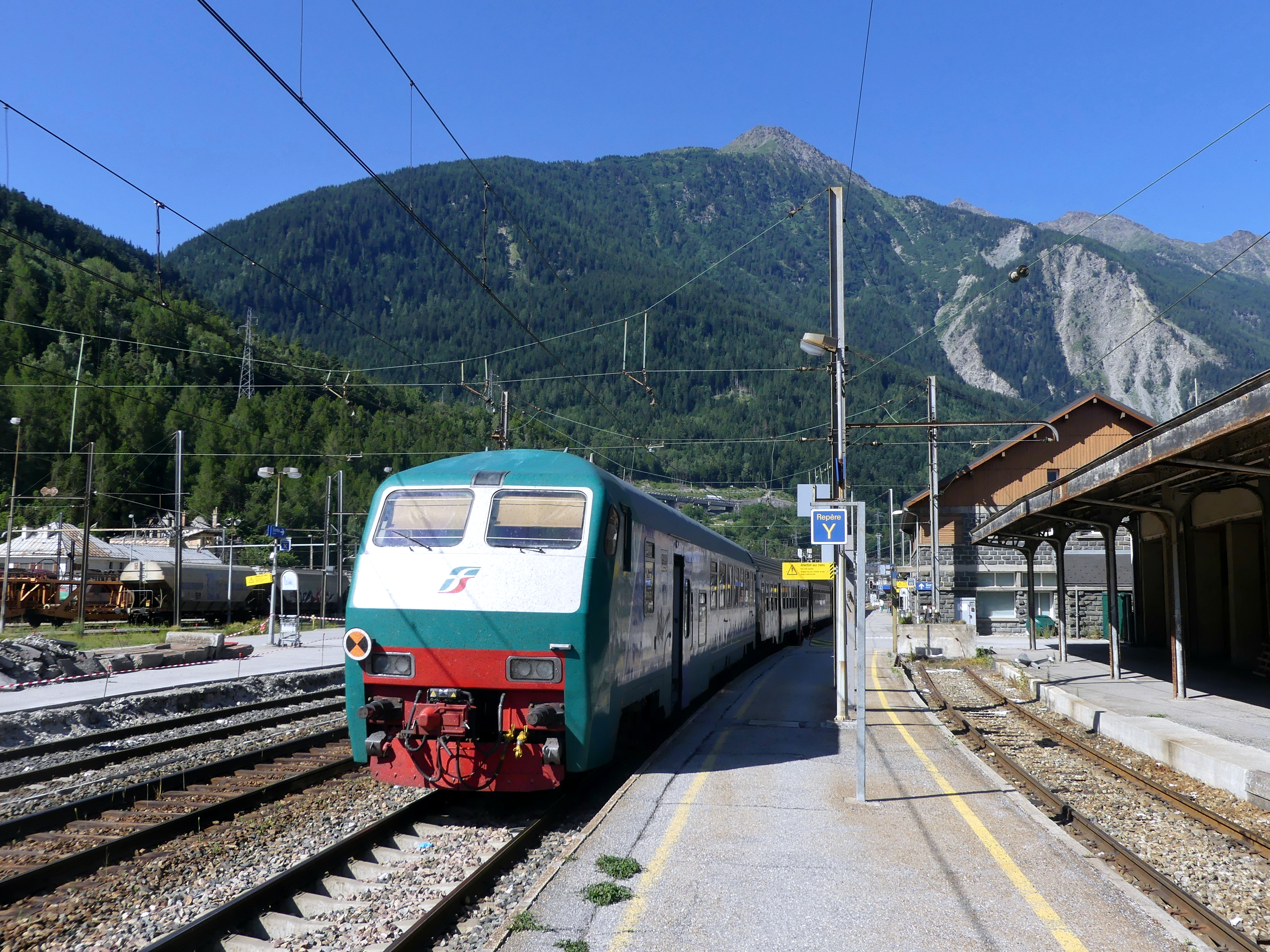 Sight of the Italian weekend train n° 10347 bound for Torino (Italy), at its initial station Modane in Savoie (France) a few kilometers from the border.